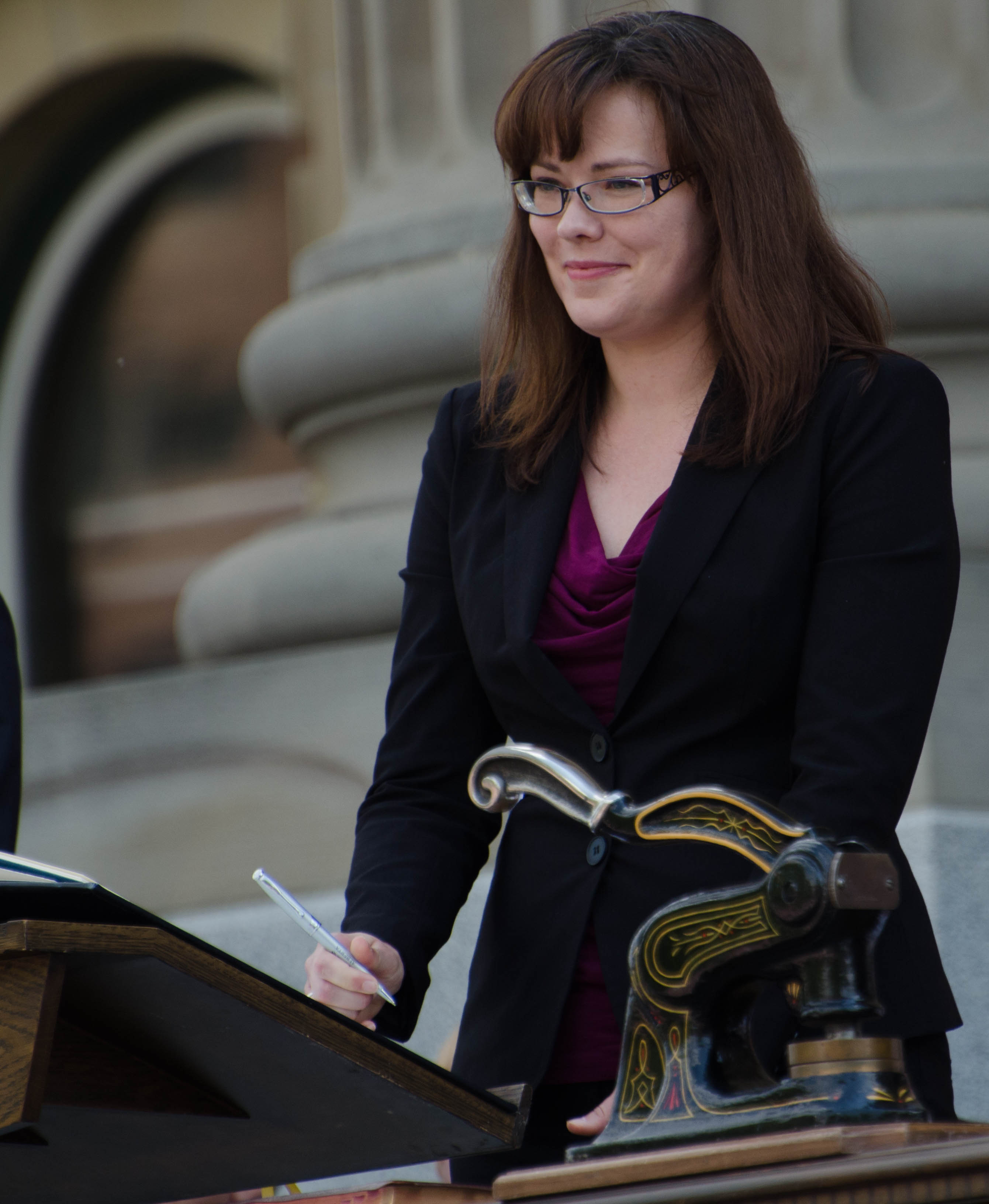 Kathleen Ganley at the 2015 Alberta Premier/Cabinet swearing-in ceremony, by Connor Mah.